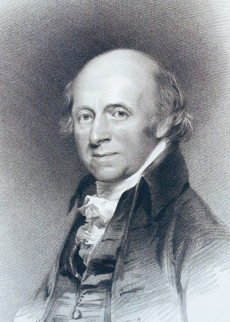 Engraving of English historian and archdeacon William Coxe by William Thomas Fry (1789–1843), based on an original picture by Sir W. Beechey, RA, drawn by J. Jackson, in A Historical Tour Through Monmouthshire published by Davies and Co., 1904